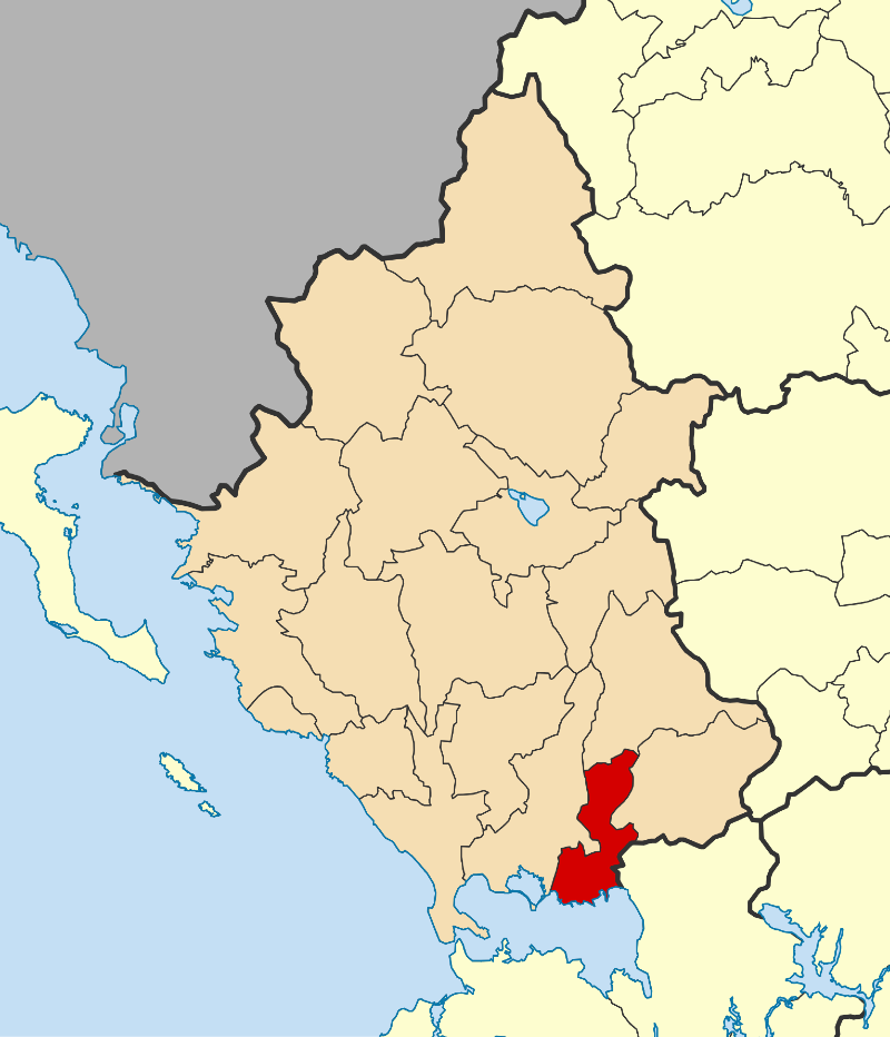 Locator map for Nikolaos Skoufas municipality in Greek region Epirus (2011)